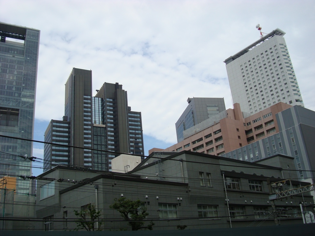 Skyscrapers in Yoyogi 2-Chome district of Tokyo. High-rise buildings are: (From left) Yoyogi Seminar Tower, Shinjuku Minds Tower, JR-East Headquaters building, and Odakyu Southern Tower. The overhead wires in front are Odakyu Line`s.